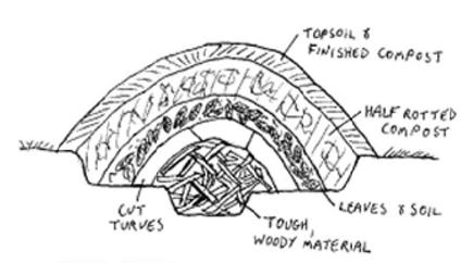 Sketch of the layers of materiel involved in a Hugelkultur raised bed.